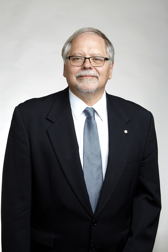 John P. Smol is a Canadian ecologist, limnologist and paleolimnologist who holds the Canada Research Chair in Environmental Change in the Department of Biology at Queen's University, Kingston, Ontario Attribution: The Royal Society